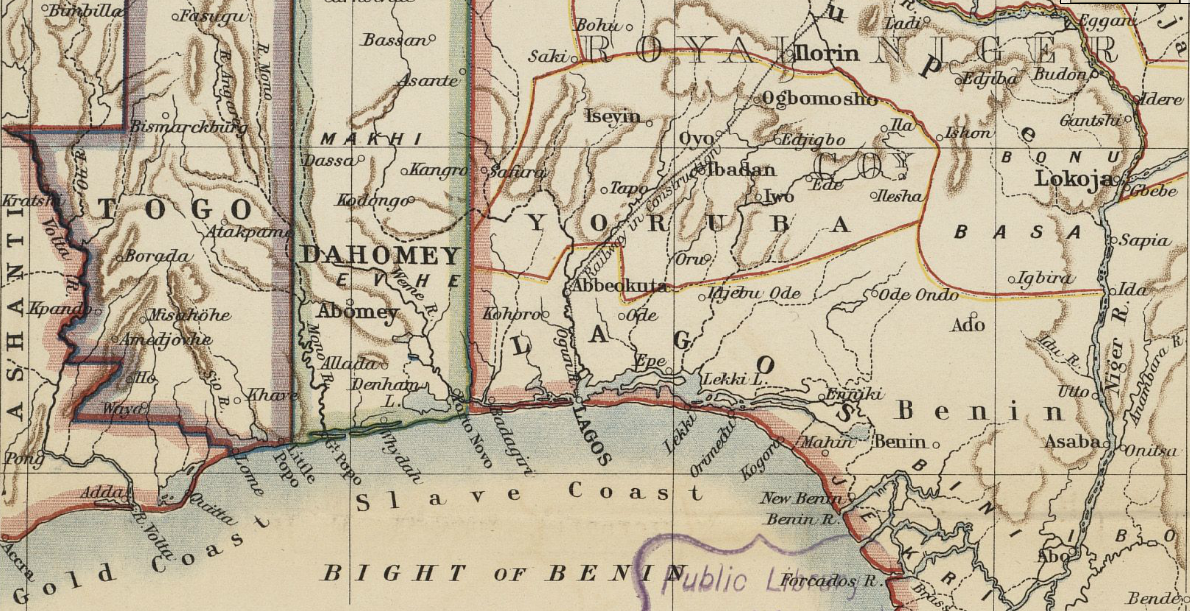 Detail showing Lagos, Nigeria. From: "Map to Illustrate the Question of the Niger" (1:4,435,200). Detail of: Maps to Illustrate the Niger and Upper Nile Questions Author: W. & A. K. Johnston Publisher: Johnston, W. & A. K. Date: 1898 Location: Africa, Africa, North, Africa, West, Darfur (Sudan), Niger River, Nigeria, Nile River, Sudan Dimension: 51.0 x 44.0 cm. Call Number: G8201.P53 1898 .J65